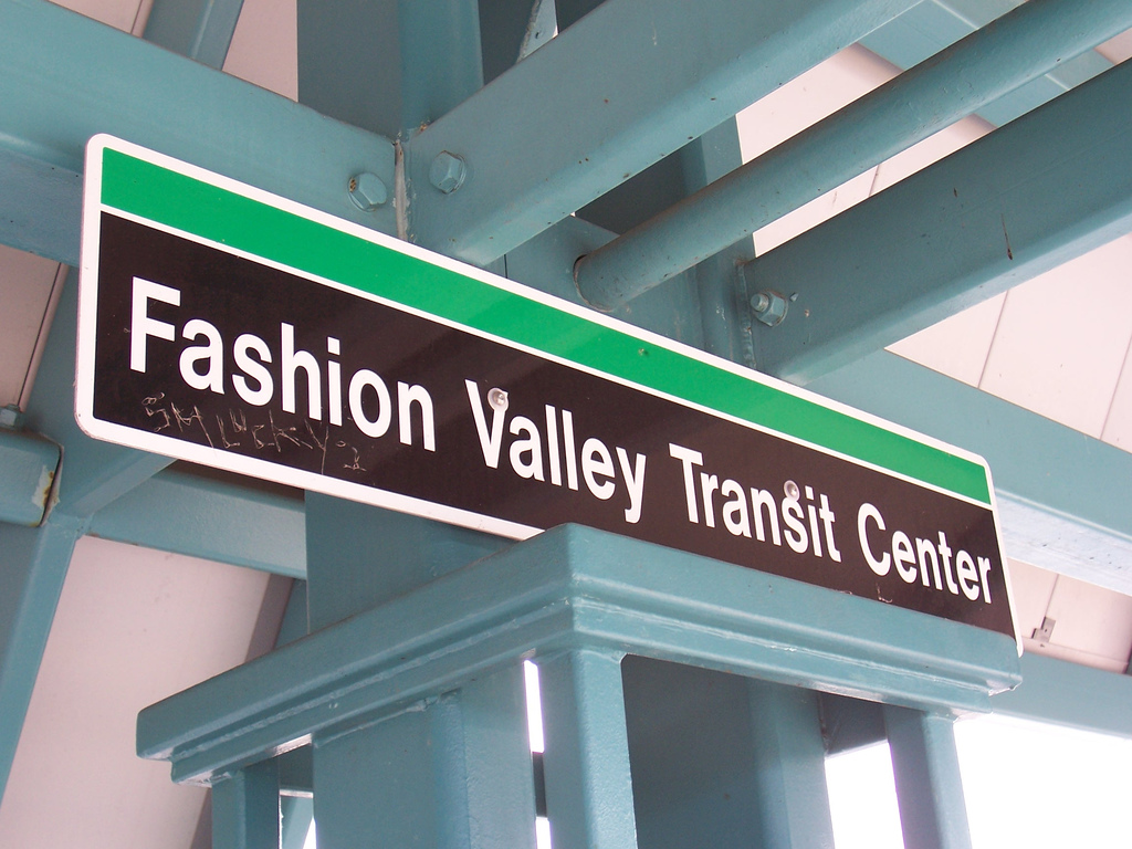 Fashion Valley Trolley Center